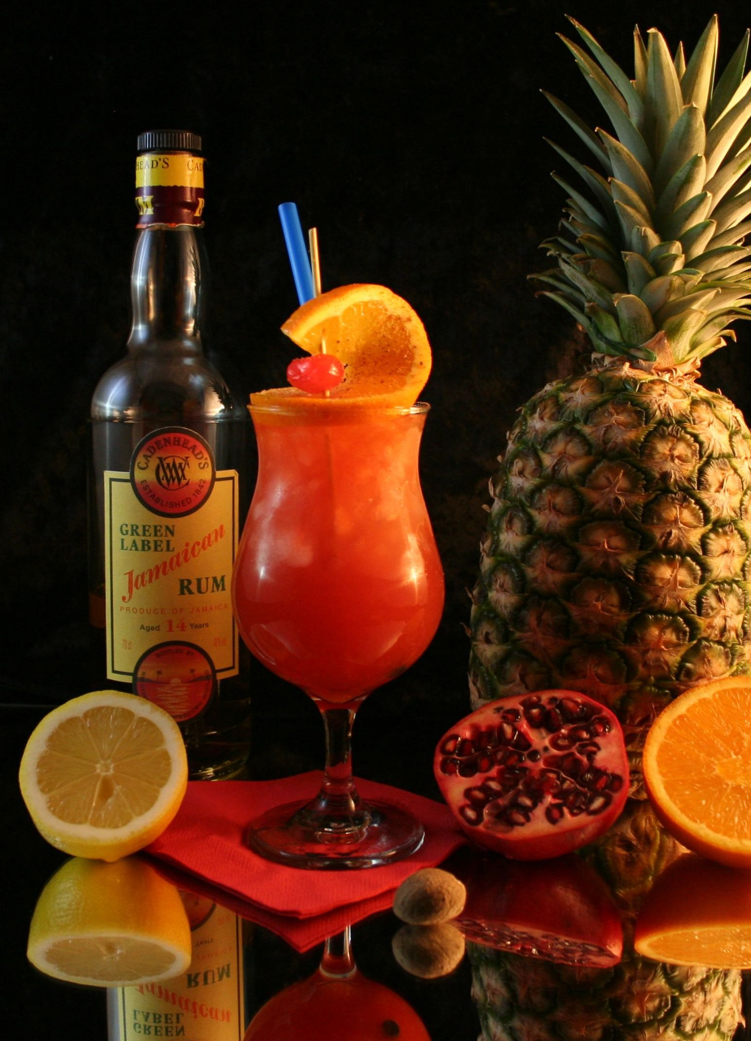 Planter's Punch with key ingredients. From left to right: lemon, dark rum, Planter's Punch in a Squall/Fancy Glass (with a straw, garnished with a slice of orange and a cocktail cherry), nutmeg, pomegranate, pineapple, orange